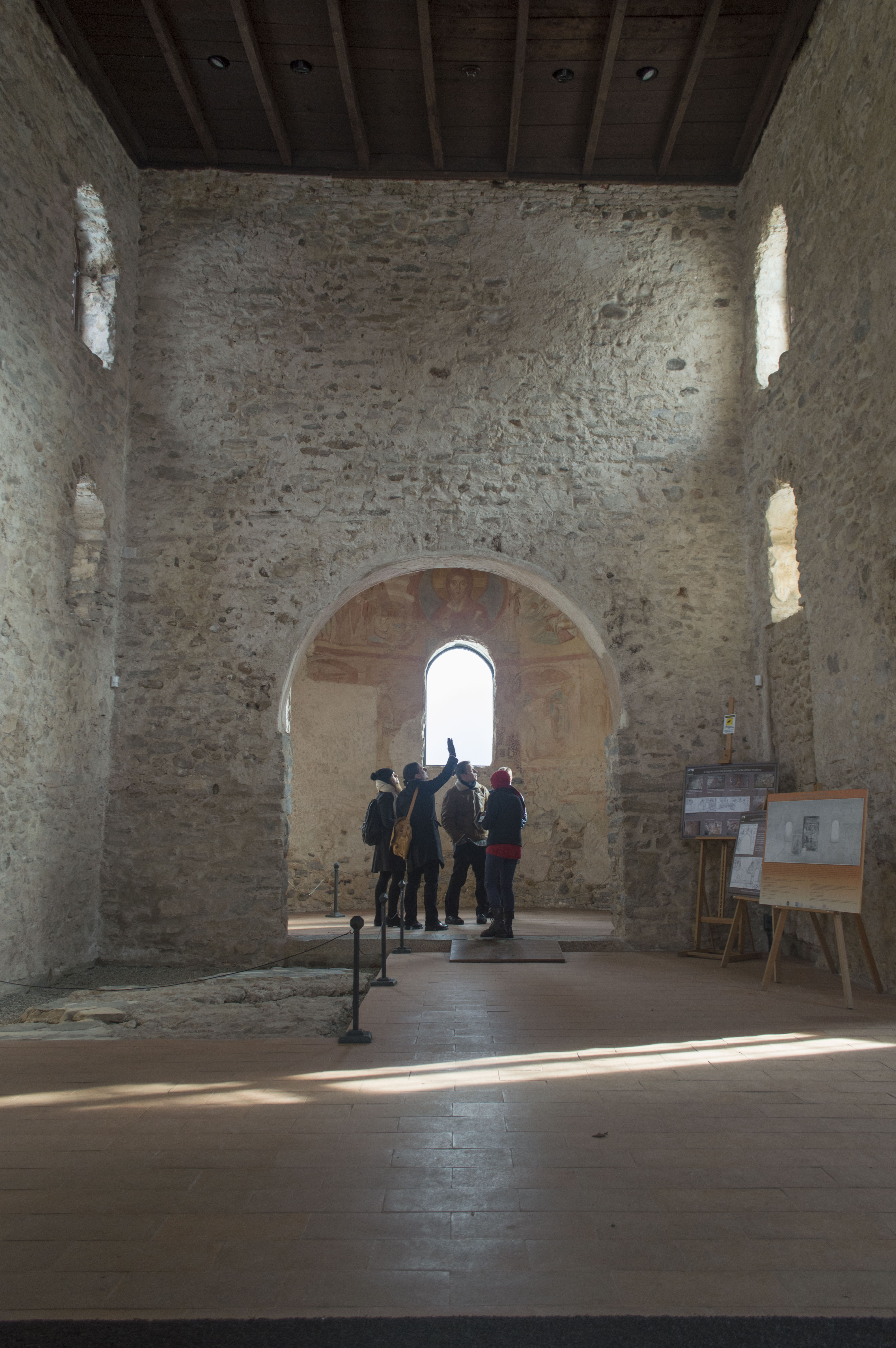 Study trip of students of art history in Brno with doc. Ivan Foletti to Milan and surroundings.